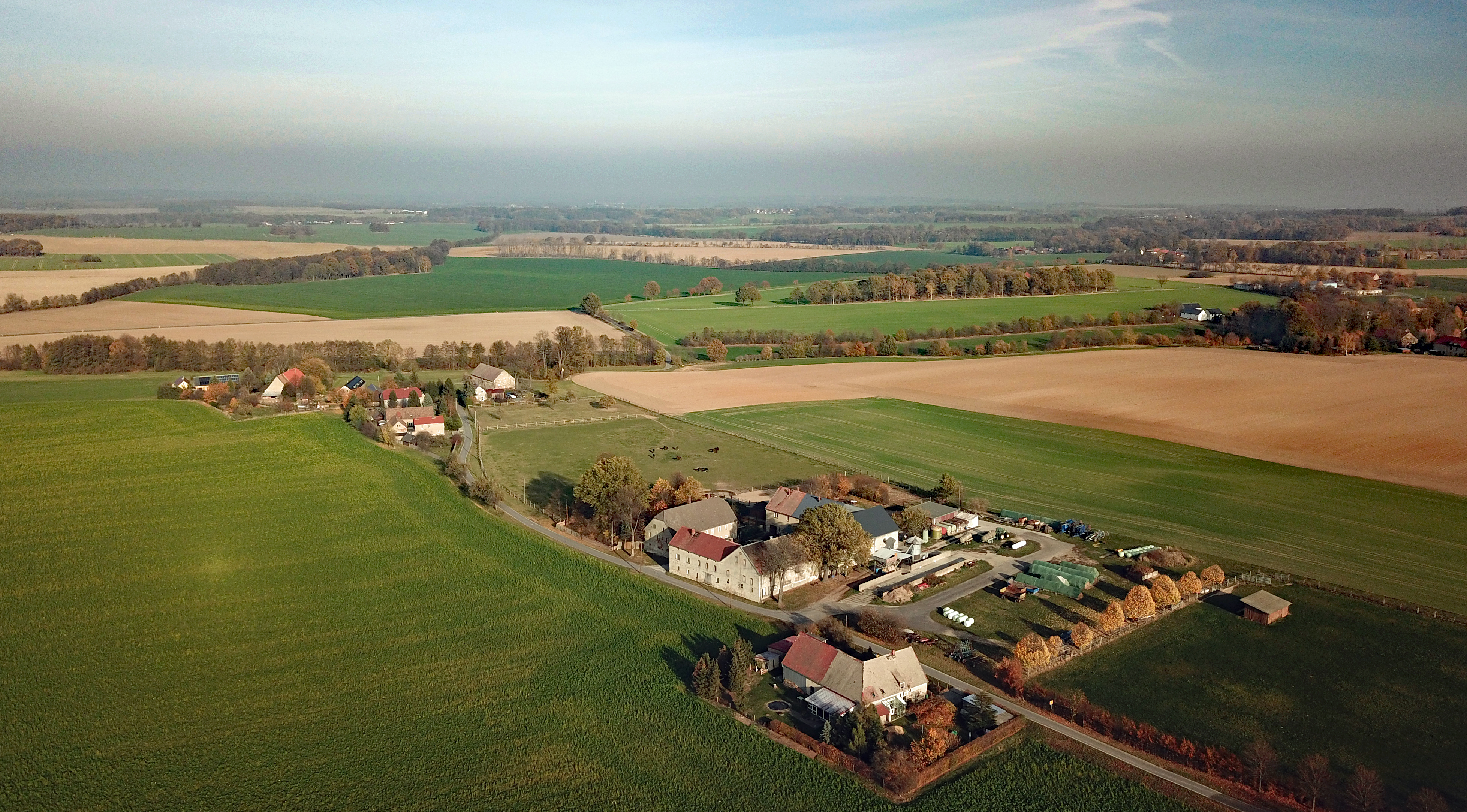 Löschau (Bautzen, Saxony, Germany) Hornjoserbsce: Powětrowy wobraz Lešawy